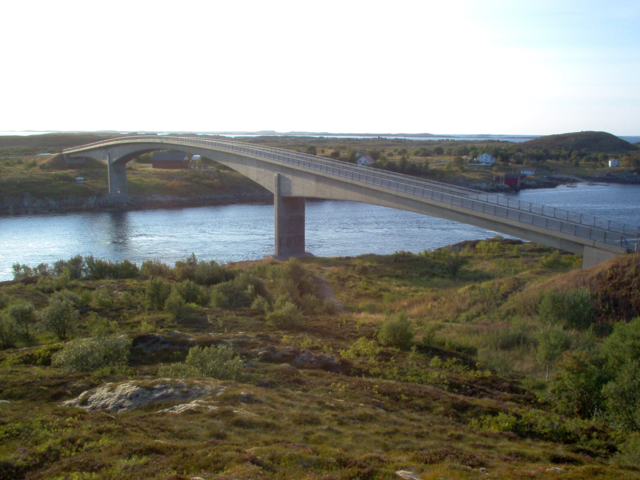 Åkviksundet Bridge in Norway, with Dønna in the foreground and Staulen, Herøy, in the background.